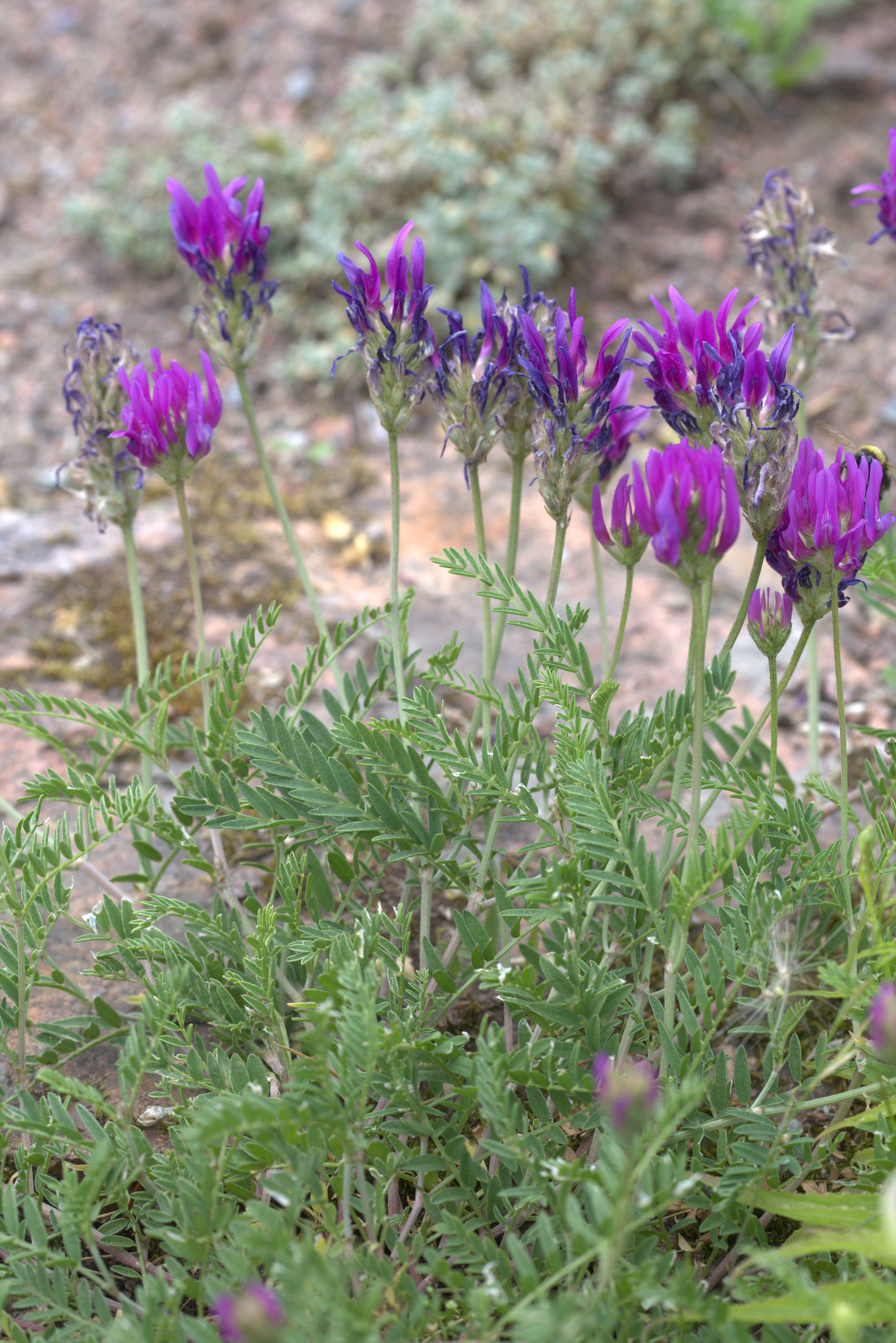 Astragalus onobrychis in Gothenburg Botanical Garden 2015. Plant id: 2005-615 s W.